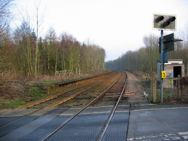 Rail Lines to Scarborough, North Yorkshire, England. Remains of platform of Lowthorpe railway station, Lowthorpe in the East Riding of Yorkshire. Looking NE along the lines which run diagonally from the SW corner to the top NE corner of the grid square.